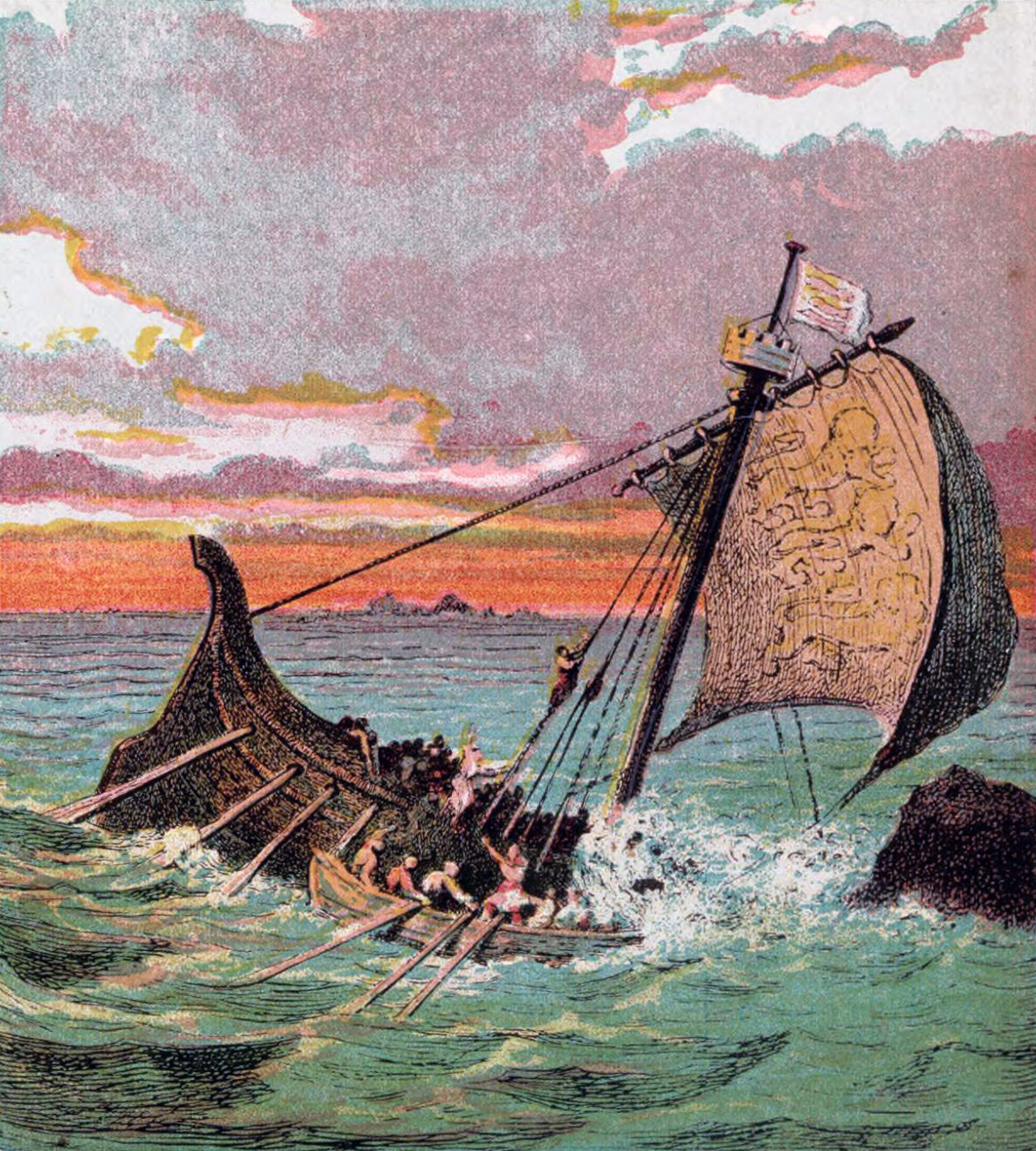 The wrecking of the White Ship